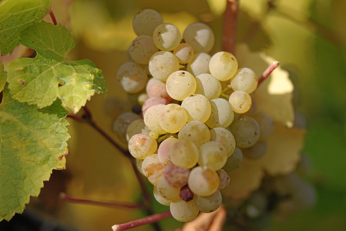 Ripe grapes of Riesling. Photographer: Tom Maack, Riesling grapes and leaves. Rheingau, Germany, October 2005